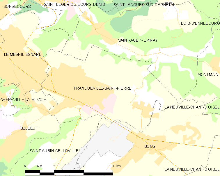 Map of French municipality Franqueville-Saint-Pierre